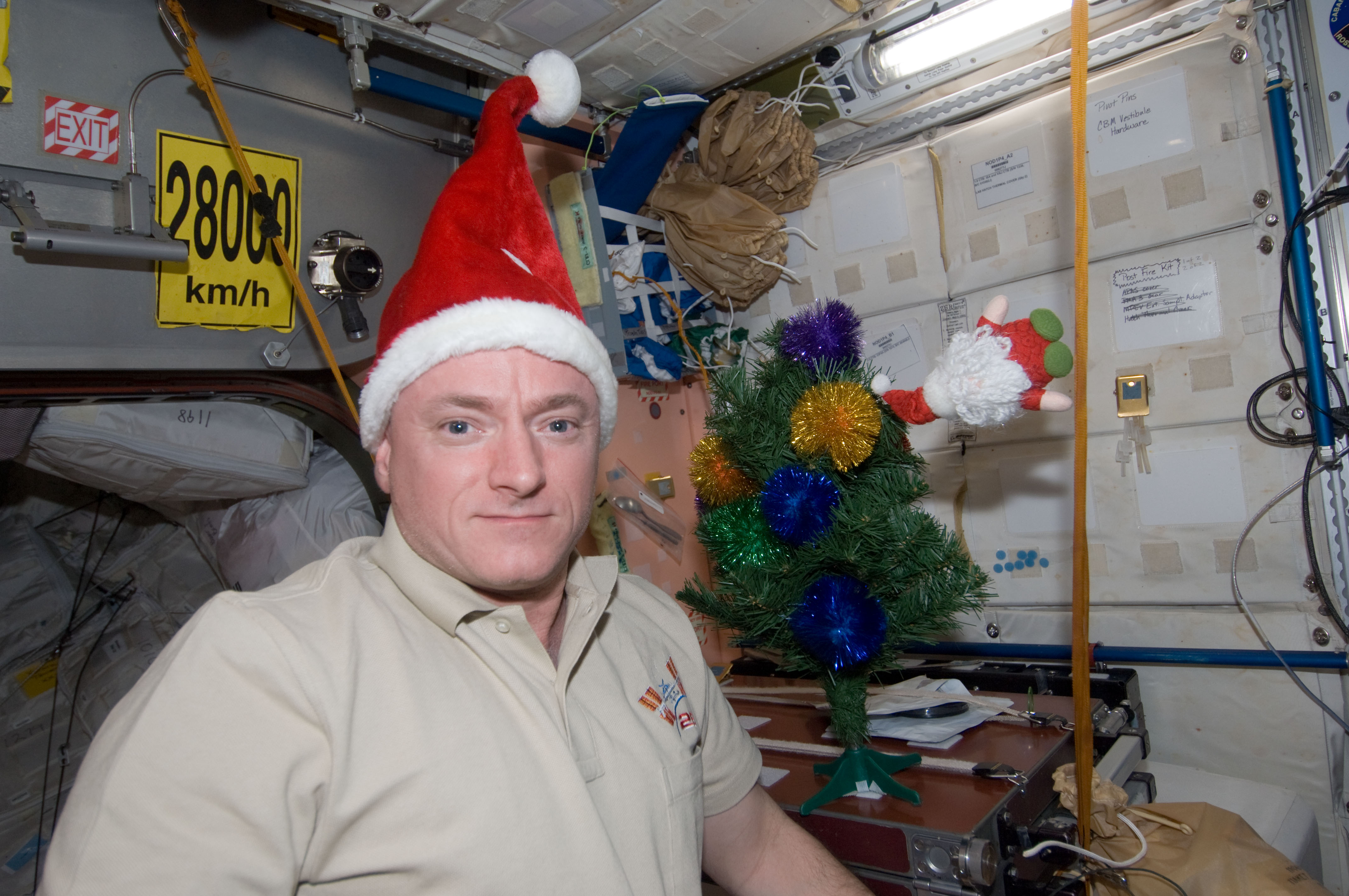 Wearing a Santa Claus hat, NASA astronaut Scott Kelly, Expedition 26 commander, poses for a holiday photo near Christmas decorations in the Unity node of the International Space Station.